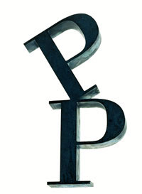 Photo of award statue.